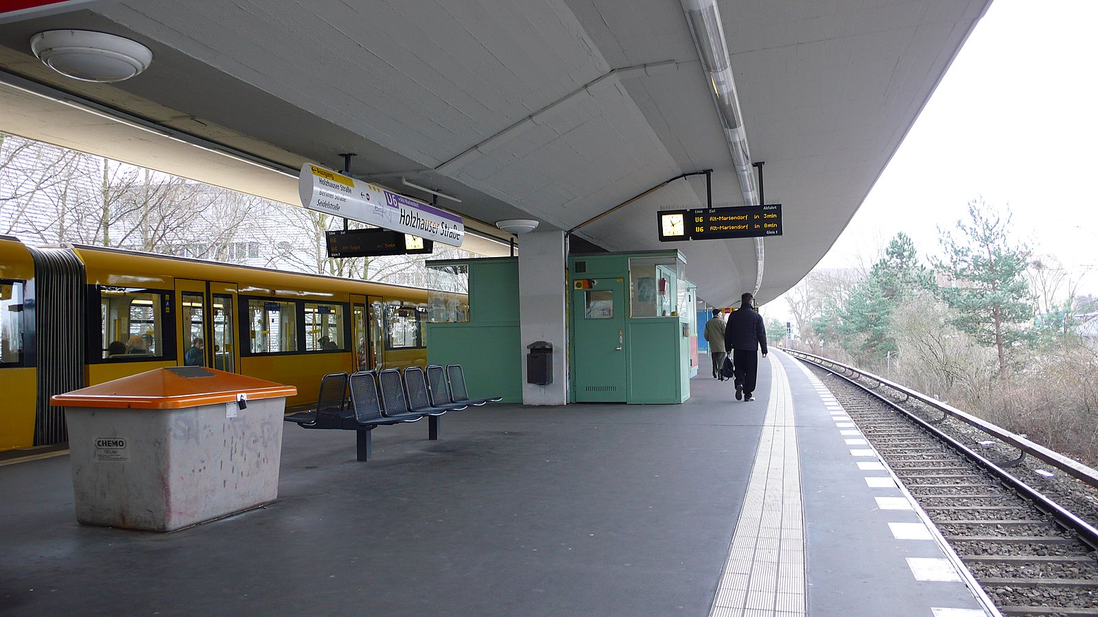 Holzhauserstr U6 Berlin